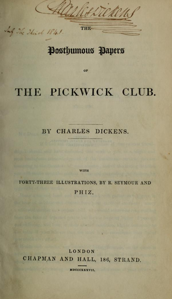 Title page of 1st edition of The Pickwick Papers autographed by Charles Dickens in possession of Brigham Young University, online facsimile available at